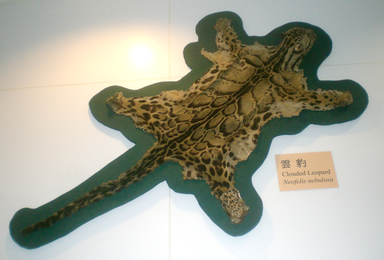 A confiscated smuggled hide of a clouded leopard (Neofelis nebulosa) in Hong Kong Zoological and Botanical Gardens.